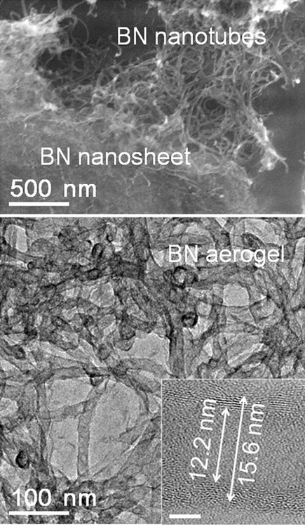 SEM image (top) shows that the BN aerogel consists of BN nanotubes coated by the nanosheets. TEM images (bottom) exhibit the tubular morphologies of the aerogel at a higher magnification. Scale bar is 5 nm for the inset.